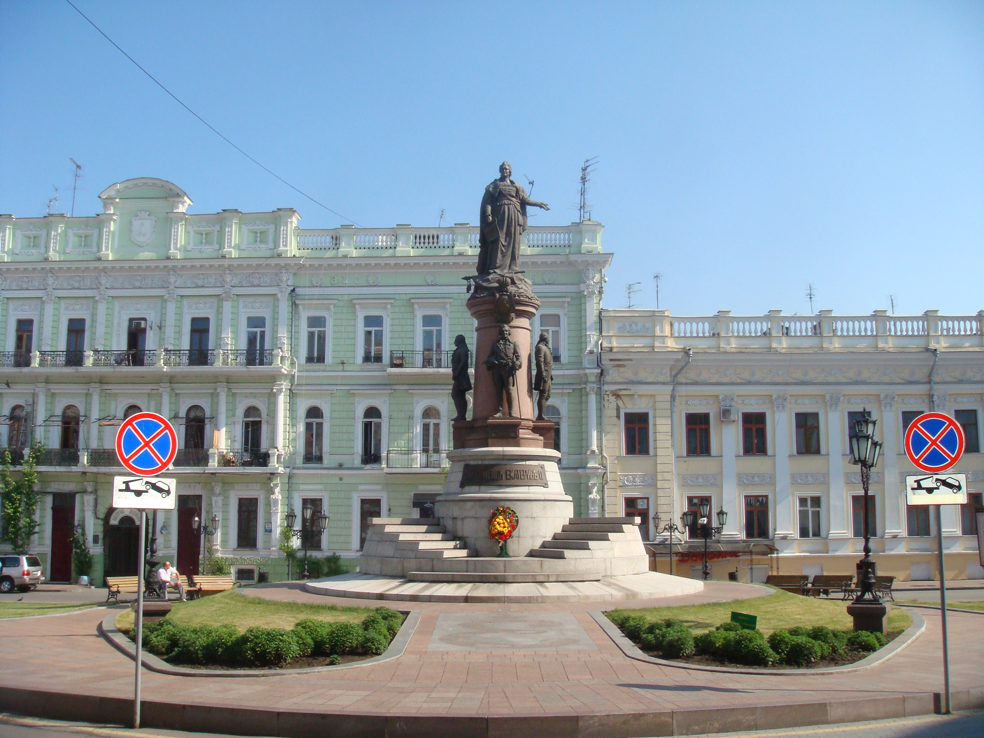 View to Ekaterinskay sq. in Odessa. Spring 2010